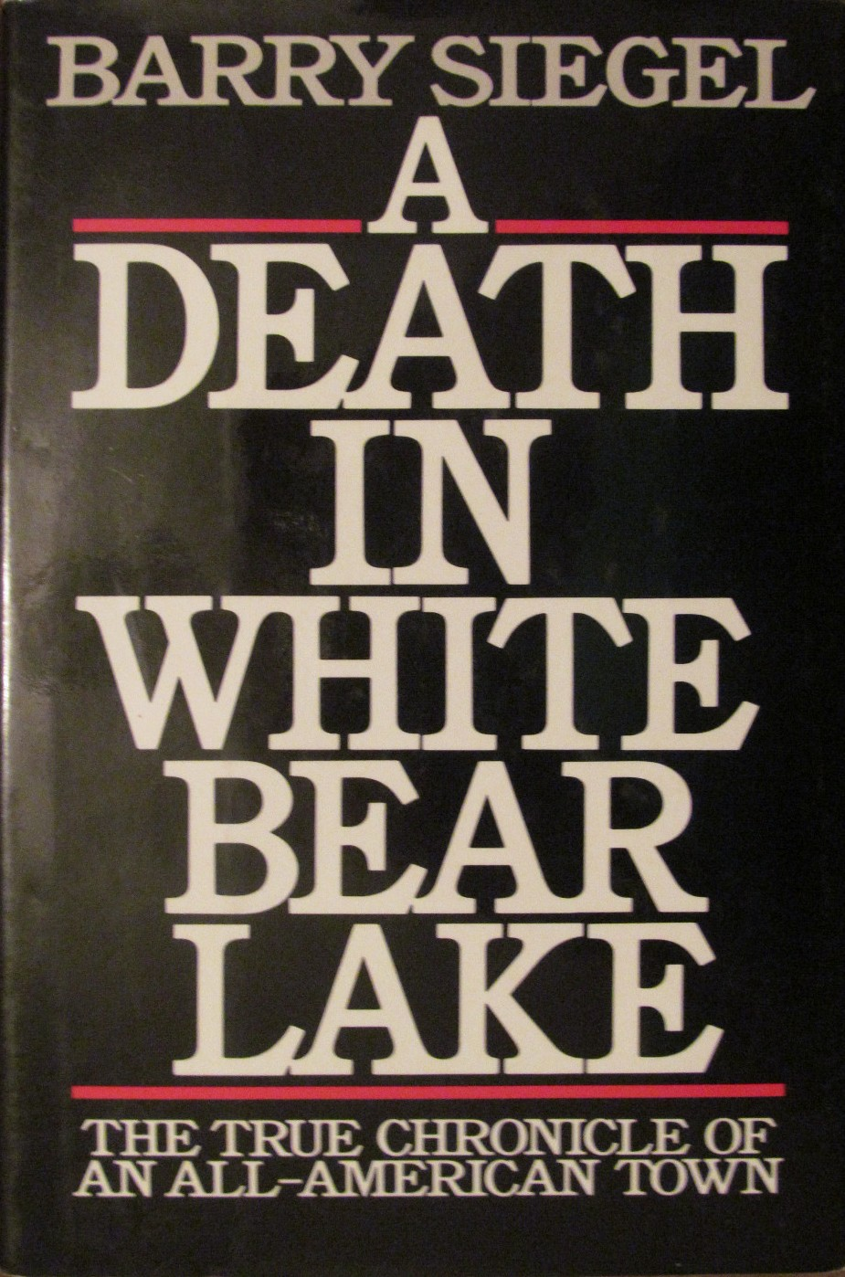 1st hardcover edition of A Death in White Bear Lake by Barry Siegel